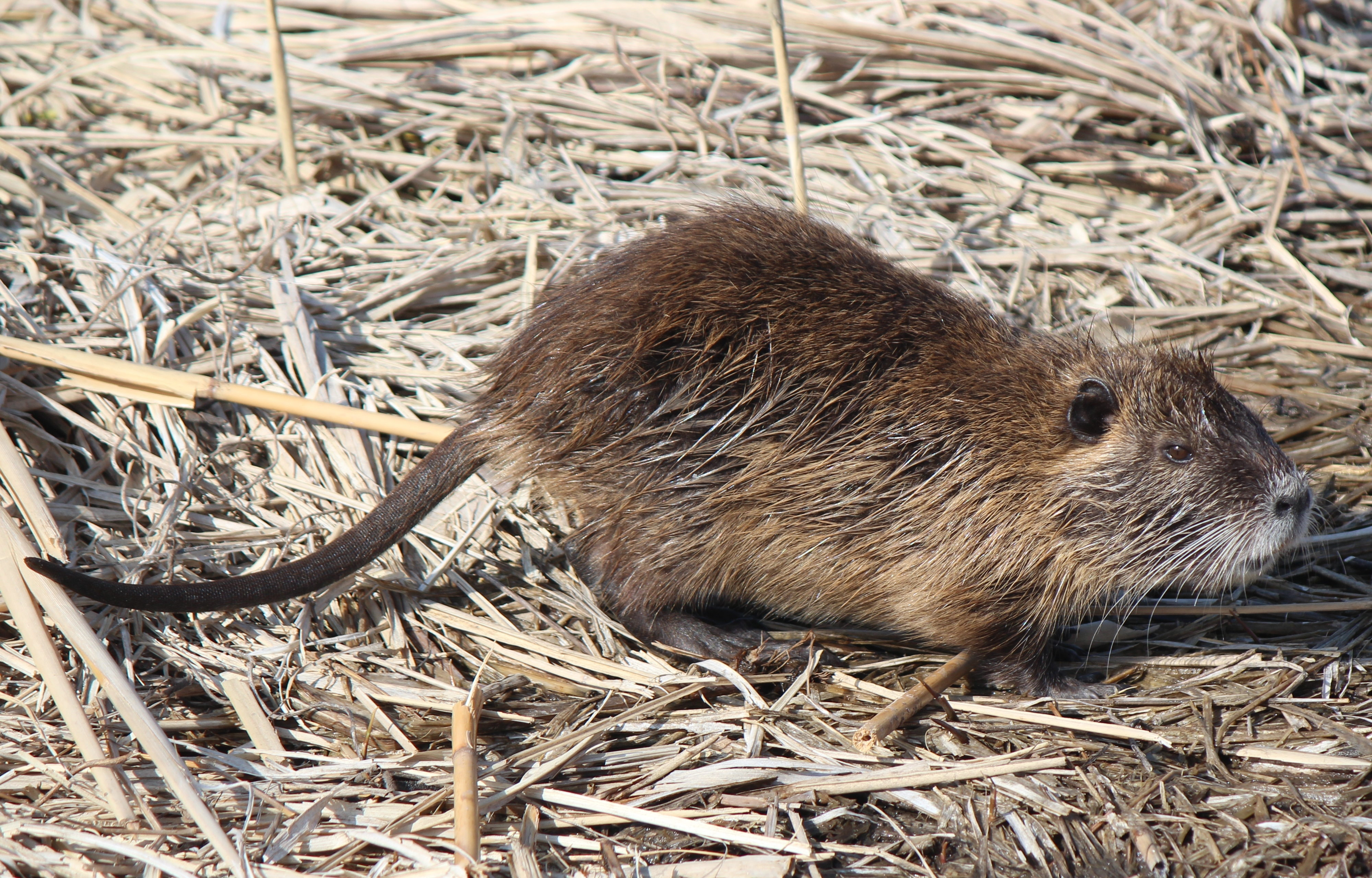 Myocastor coypus (Coypu), walking in Japan